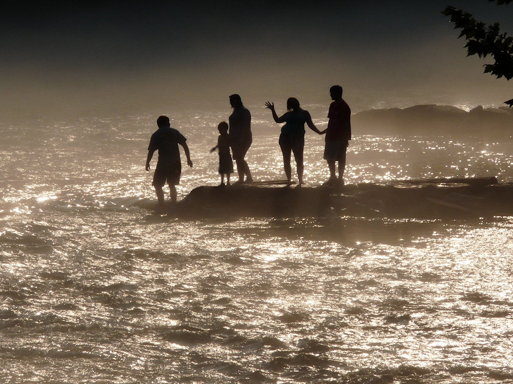 Summer mist in the Nantahala Gorge of the Nantahala River "Cold water released from the dam meets 100 degree summer day. The Nantahala River always runs with a layer of mist. North Carolina." (original flickr description)